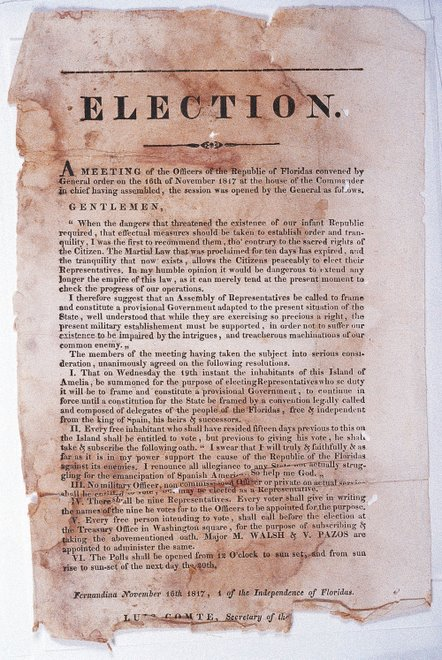 After the Island of Amelia was taken over by filibusters under the command of French pirate Louis Michel Aury in 1817, he proclaimed the "Republic of Florida". The image shows the document where he announced elections.